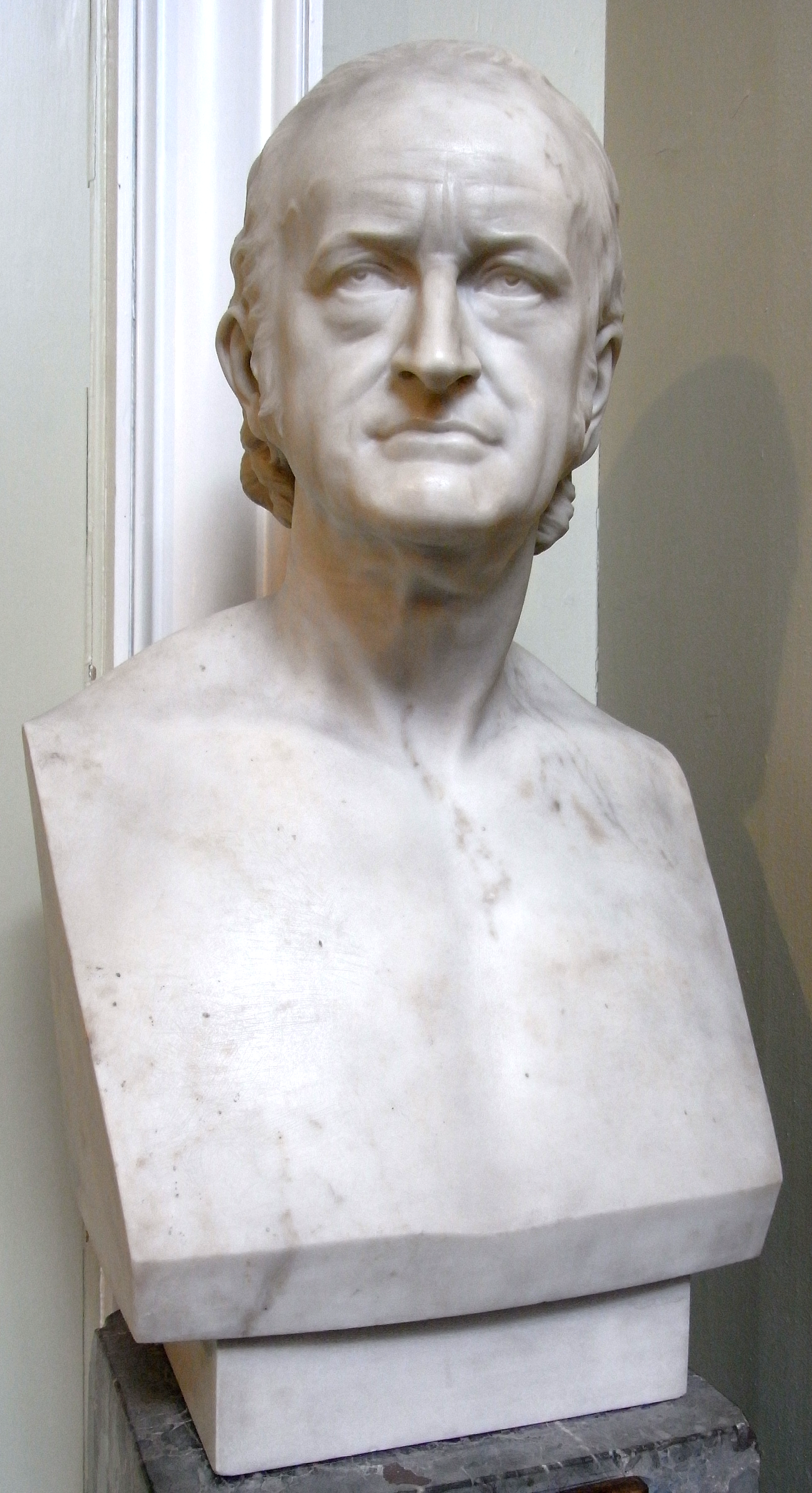 Marble bust of Sir John Bowring (1792-1872) of Exeter, Governor of Hong Kong, by Edward Bowring Stephens (1815-1882) of Exeter. Collection of Devon and Exeter Institution, Exeter, on display in the library. Plaque affixed to base inscribed: "Sir John Bowring (1792-1872), traveller, scholar and political economist, President of this institution (i.e. Devon and Exeter Institution) 1860-61. Presented by the trustees of George's Meeting 1983. Sculptor E.B. Stephens"